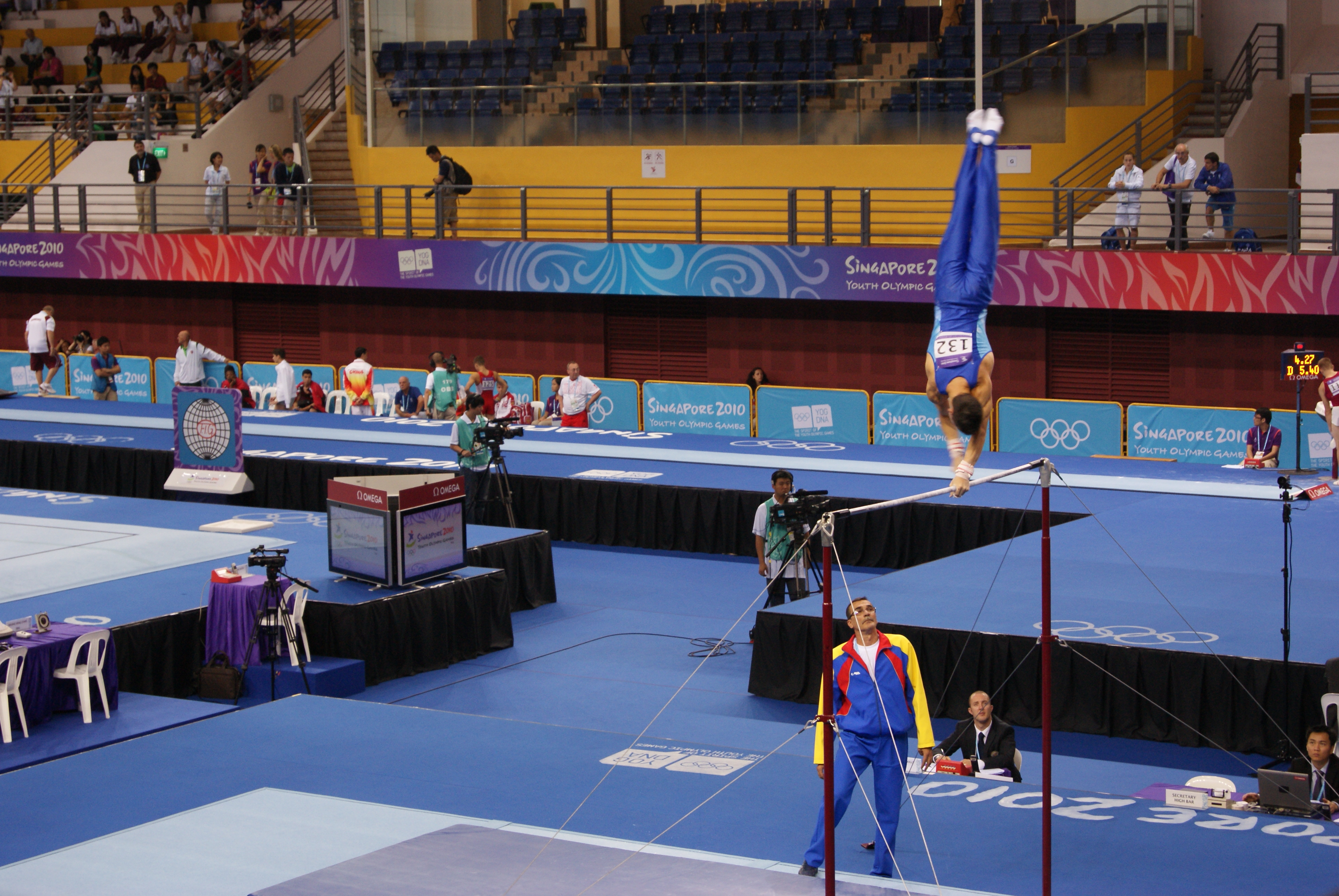 Romanian gymnast Andrei Muntean performing on the horizontal bar during Men's Qualification – Subdivision 1 of the artistic gymnastics competition at the 2010 Summer Youth Olympics at Bishan Sports Hall, Singapore.